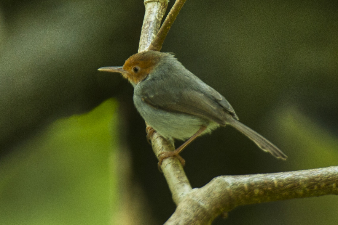 Ashy Tailorbird - Thailand_H8O7587